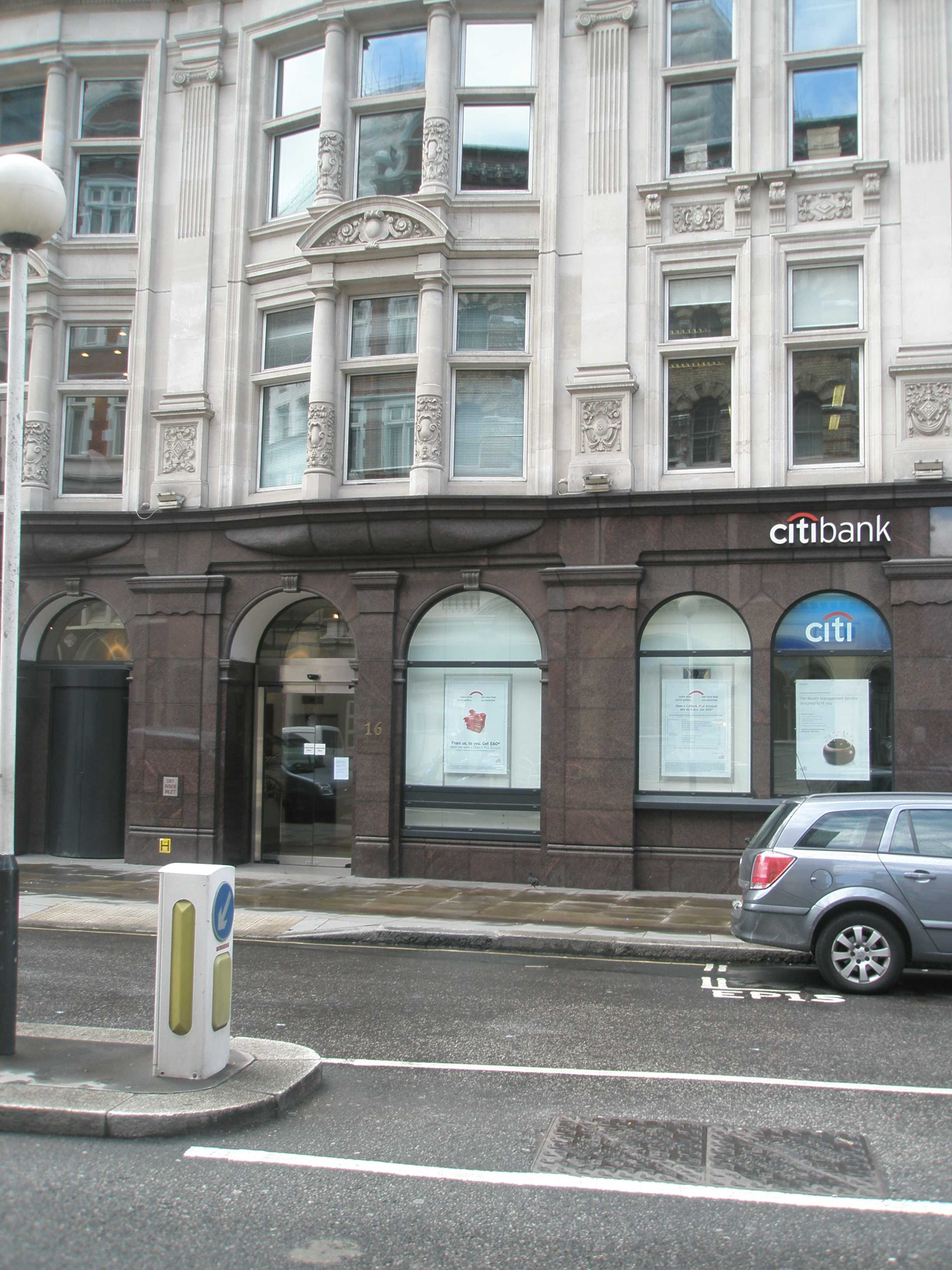 16 Eastcheap